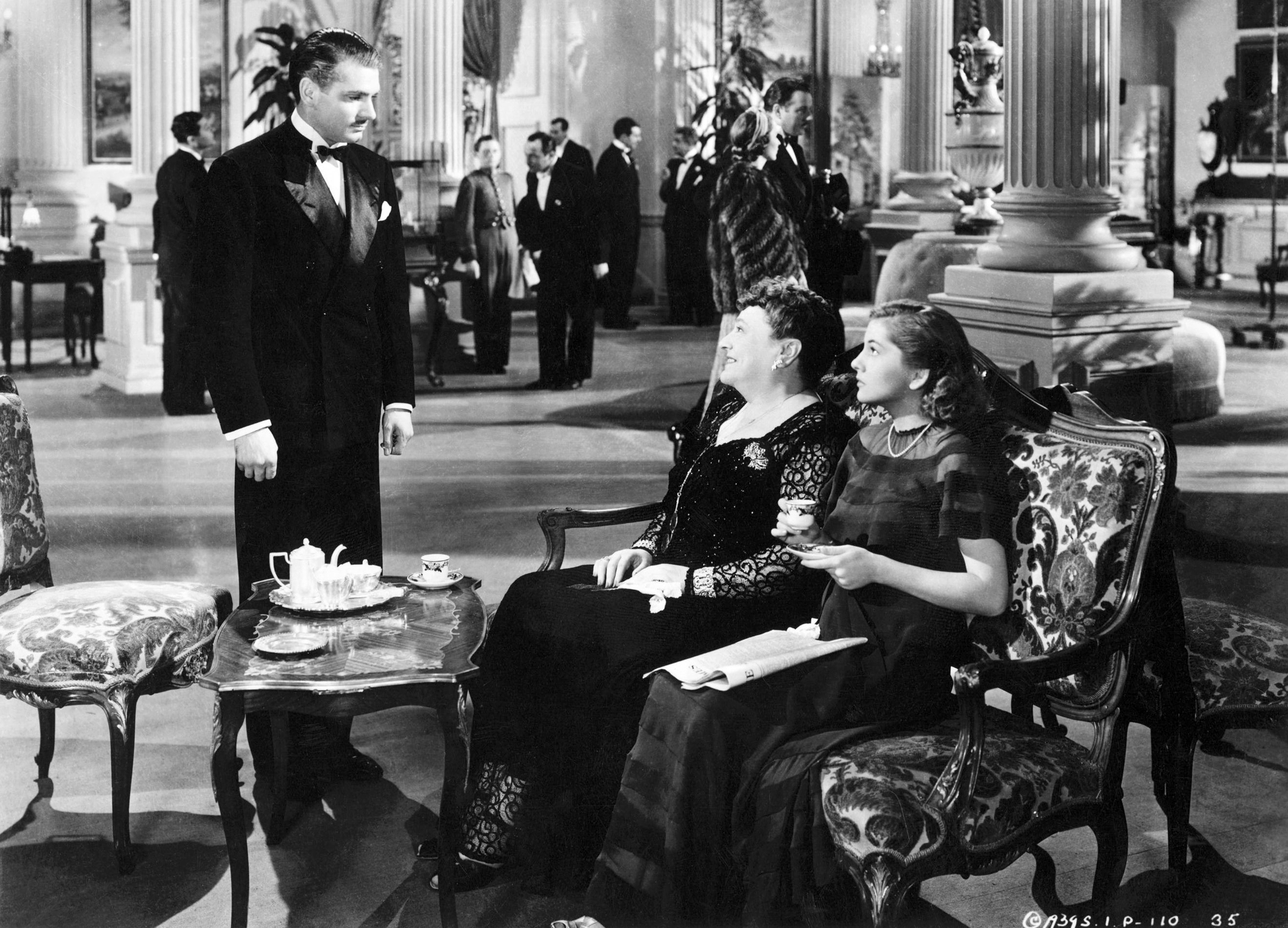 Promotional photograph of Laurence Olivier, Florence Bates and Joan Fontaine in the film Rebecca